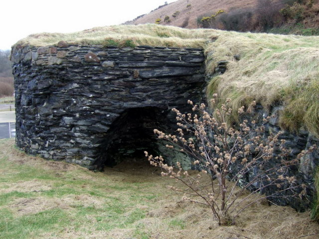 Pwllgwaelod lime kiln, and burdock The customary lime kiln for converting the limestone brought in by boat to quicklime to sweeten the land, in this case for use on Dinas Island. In front is a dessicated burdock still covered with the clinging seedheads which inspired the invention of 'velcro' - the plant is biennal and therefore took two years to reach this stage of maturity last summer.